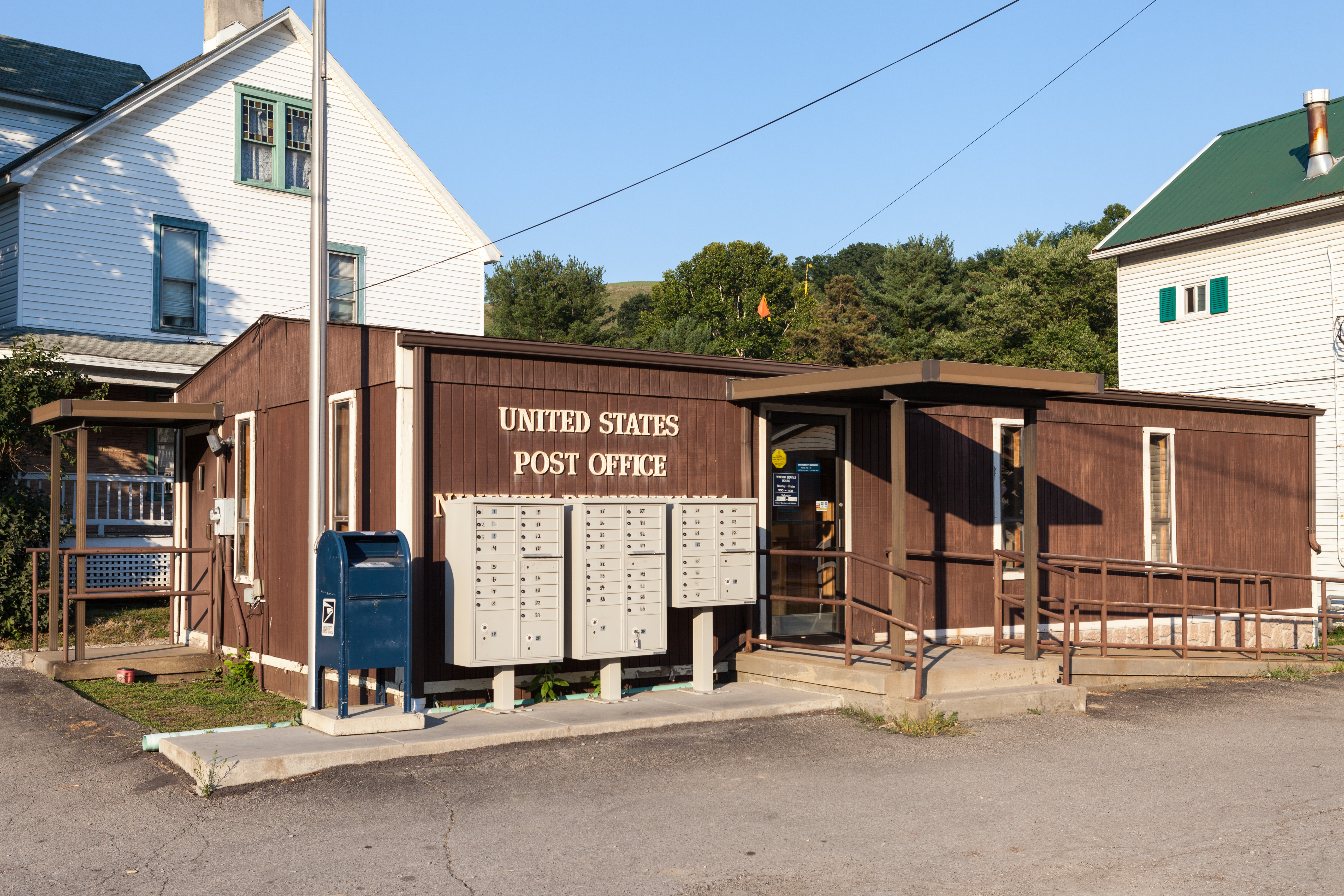 Post office at 1750 Browns Creek Road, Nineveh, Pennsylvania, located in Morris Township, Greene County, Pennsylvania.